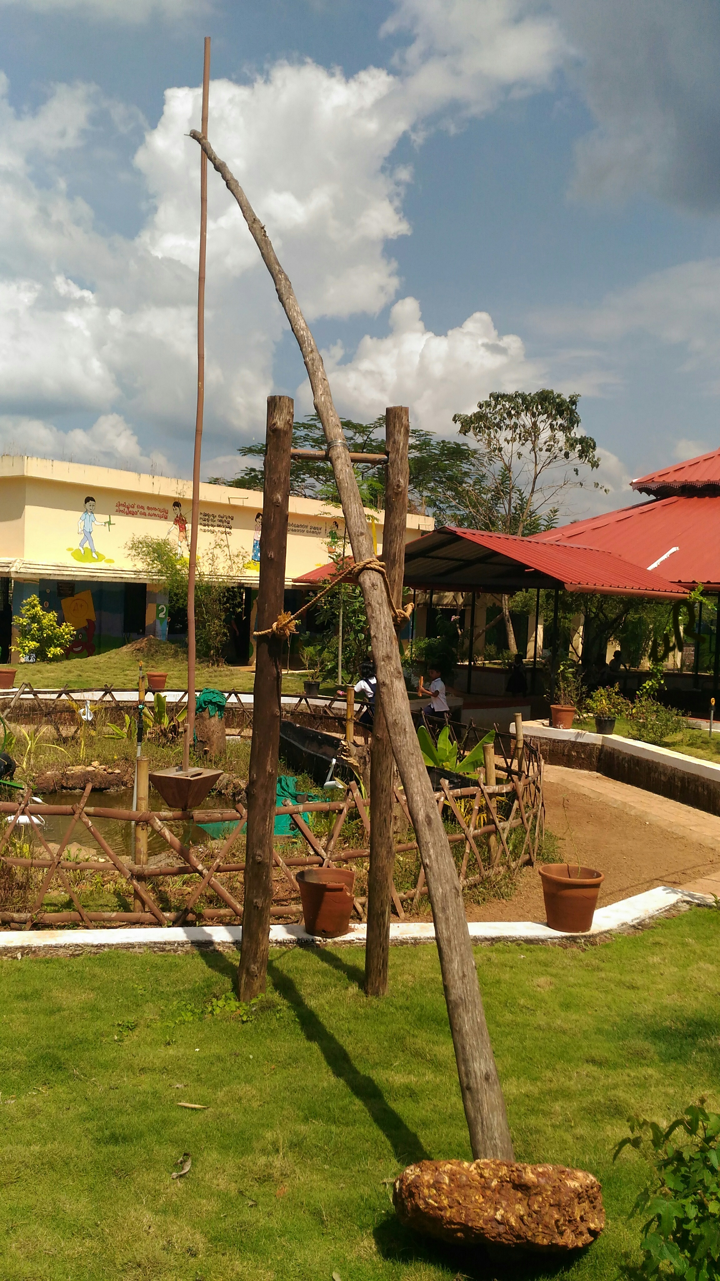 shadoof_Ethakkotta ഏത്തക്കൊട്ട